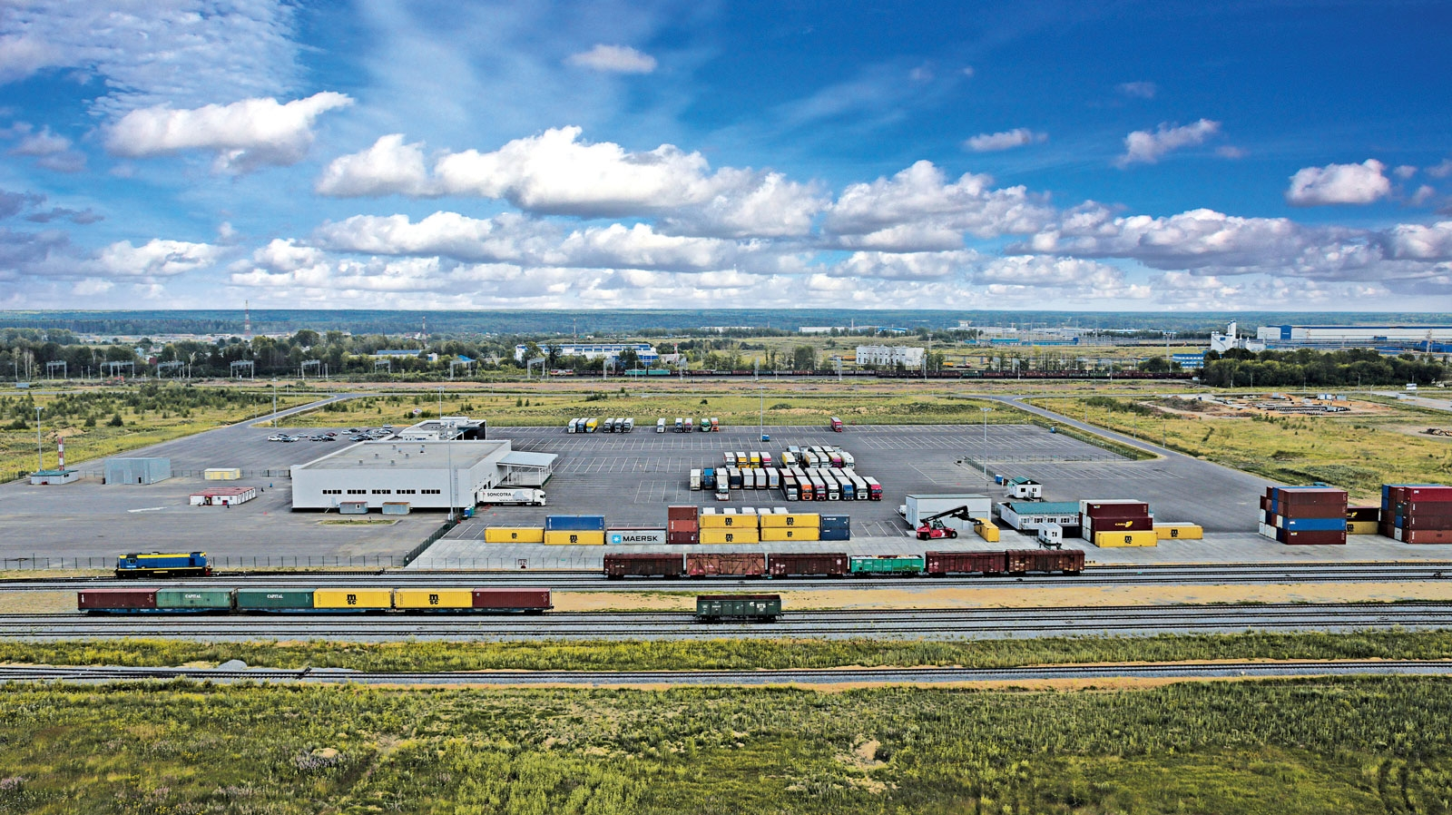 FreightVillage Vorsino 2